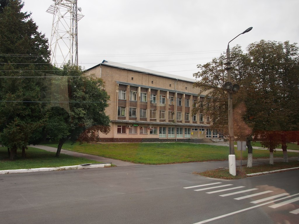 Administrative center, Radiation Control